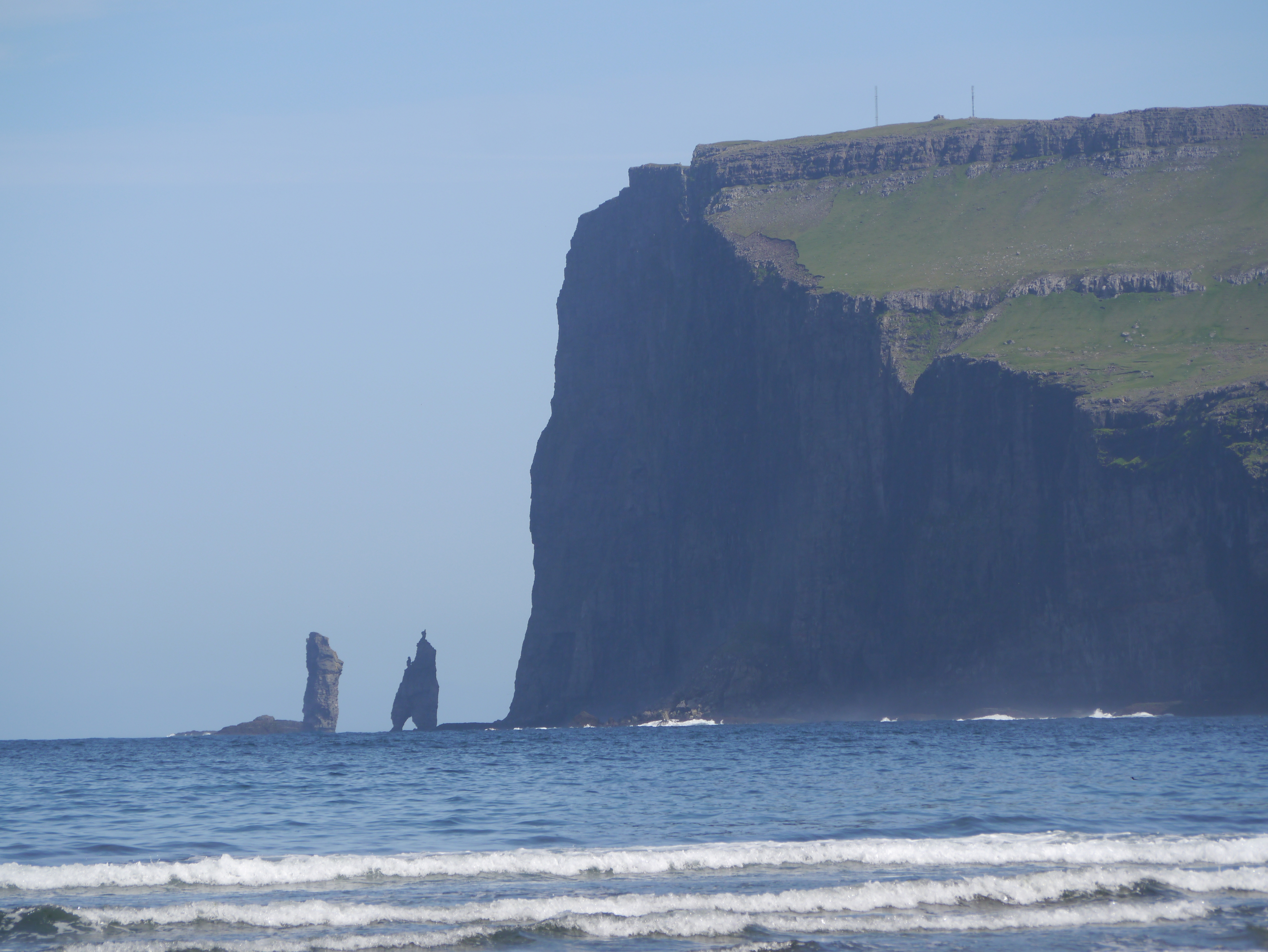 Risin & Kellingin (the Giant/Troll & his wife) off the Coast of the Island of Eysturoy, photographed from the Island of Streymoy, Faroe Islands